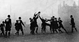 Wales v New Zealand, 1905, Photo of a line out in the Wales victory over the otherwise unbeaten New Zealand All Blacks